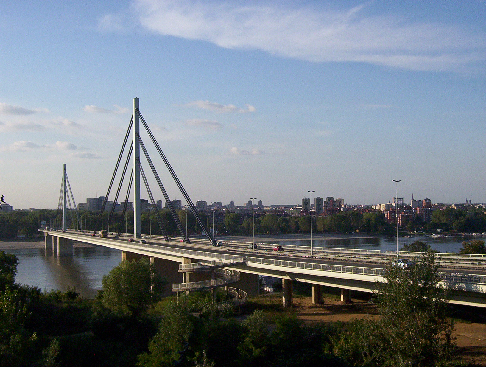 Liberty Bridge, Novi Sad, Serbia